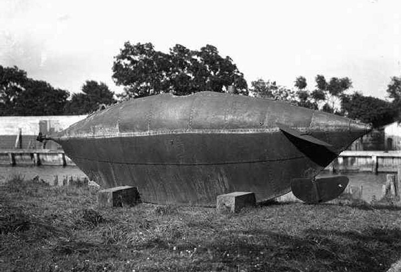 Confederate experimental submarine of the 1860s, New Orleans. Submarine on display at Spanish Fort amusement park about 1895. (This same submarine was on display at the Presbytere on Jackson Square for most of the 2nd half of the 20th century, and now is at the State Museum in Baton Rouge, Louisiana.) A bit of Bayou St. John can be seen behind the submarine.